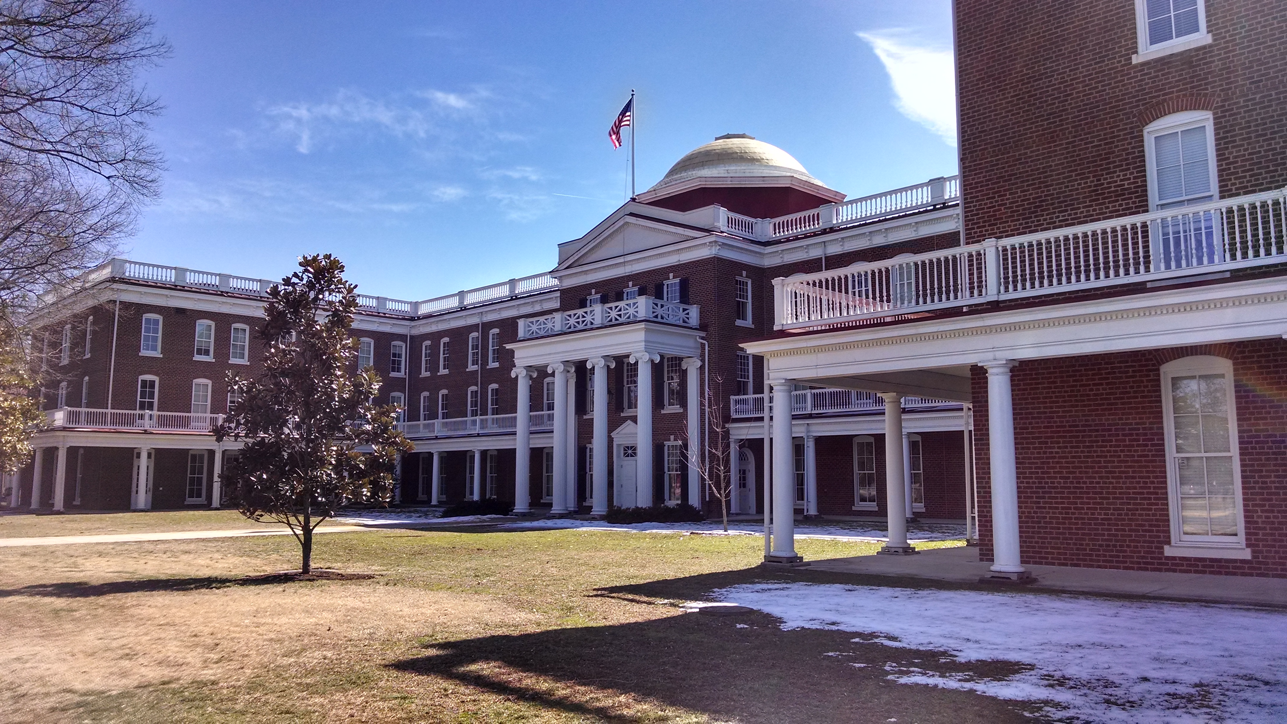 An image of Ruffner Hall, the signature building of Longwood University in Farmville. This is the second building on this site with that name, replacing an externally-identical version destroyed by fire in April 2001.